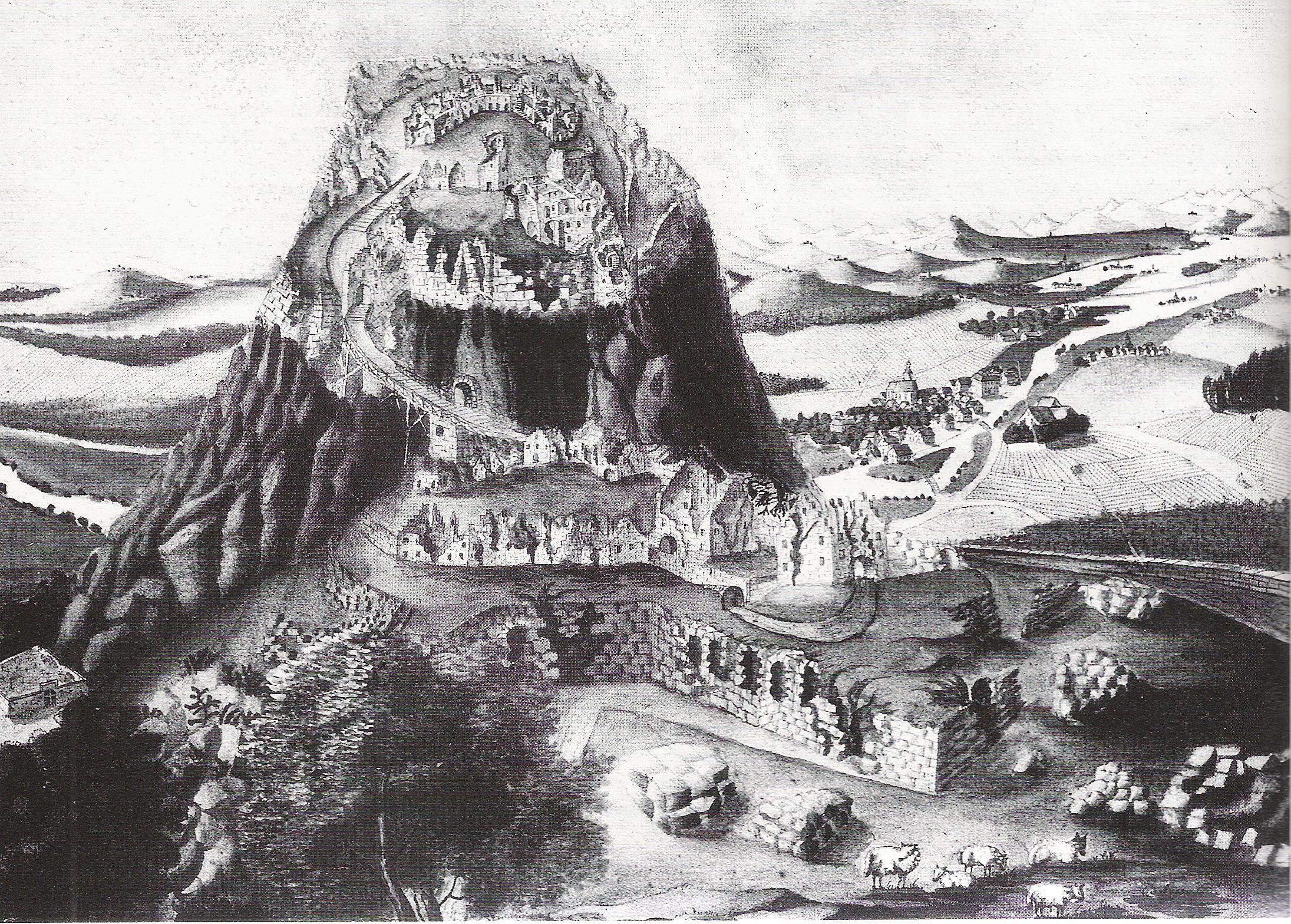 Castle Hohentwiel in southern germany, near Lake Constance.